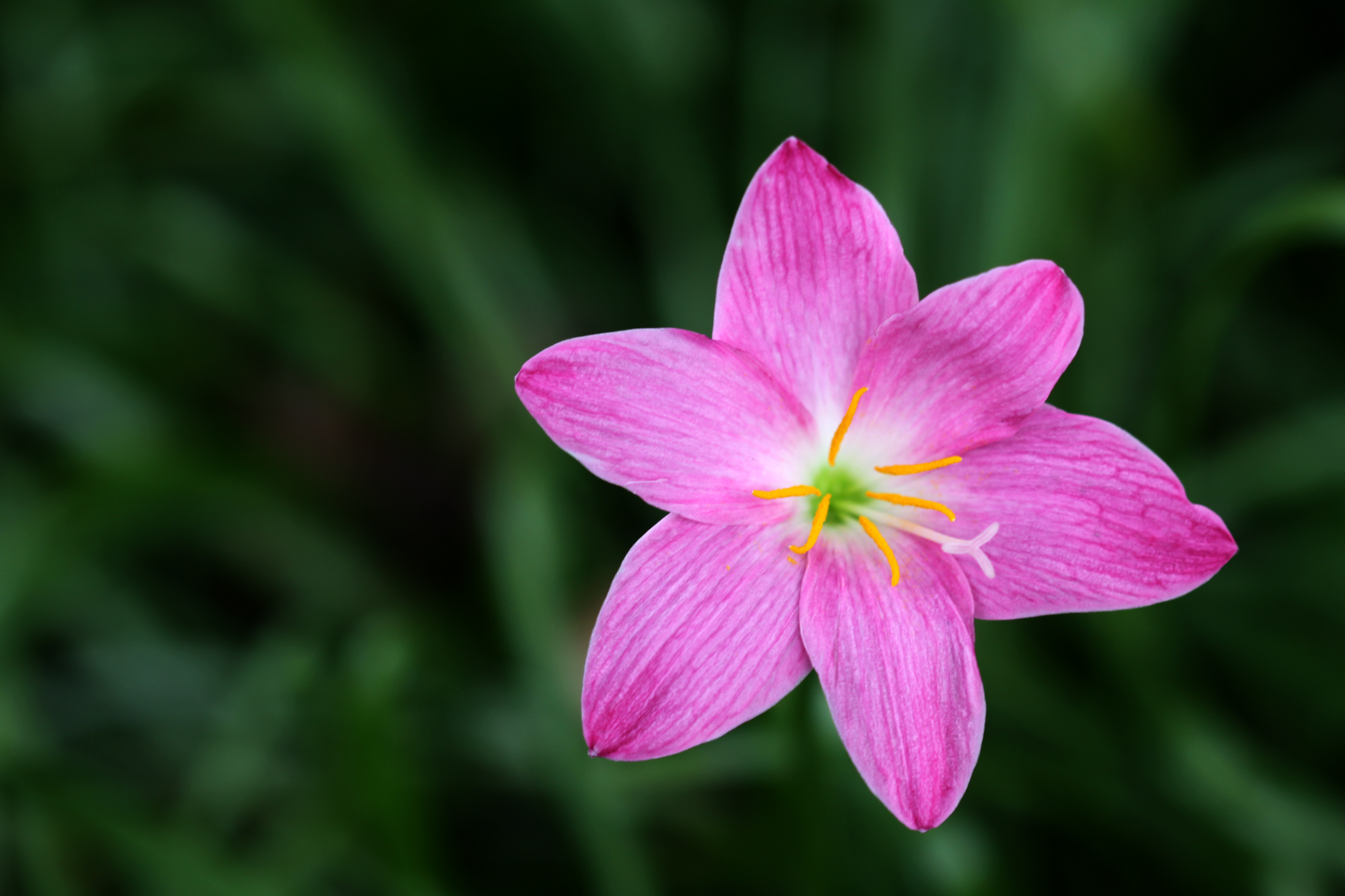 Zephyranthes grandiflora อุทยานแห่งชาติต้นสักใหญ่